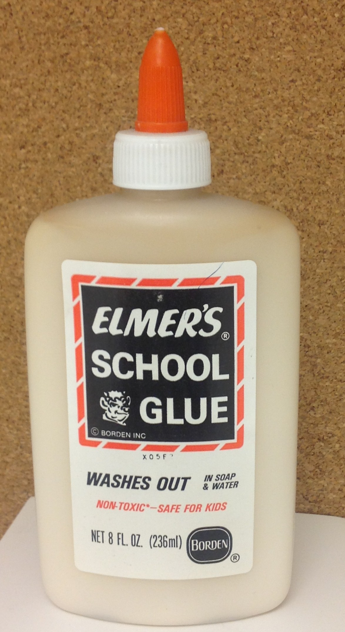 Elmer’s School Glue was introduced in 1967; packaging circa 1976